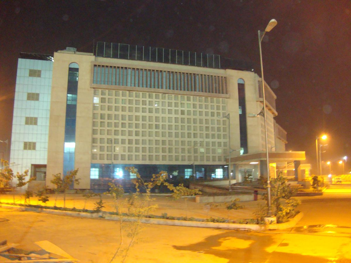 Front picture of ILBS, Institute of Liver and Biliary Sciences